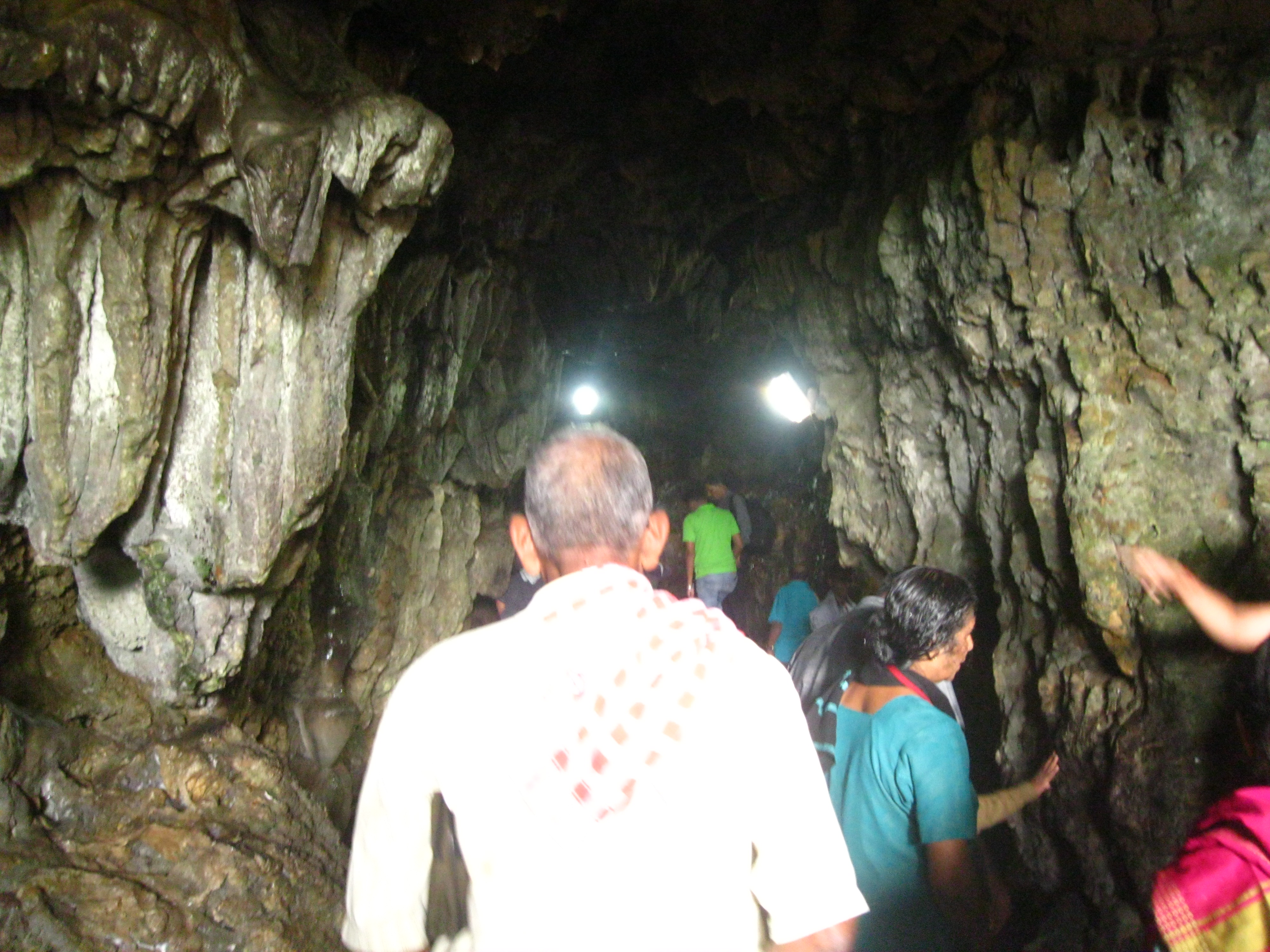 Mausami Caves ,meghalaya, cherrapunji